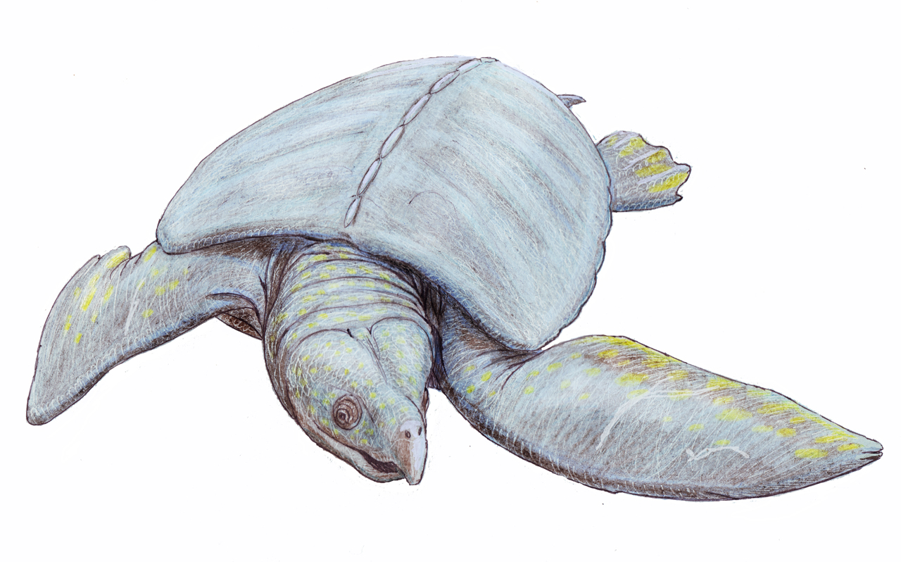 Archelon ischyros - giant sea turtle from Campanian of Pierre Shale in South Dakota